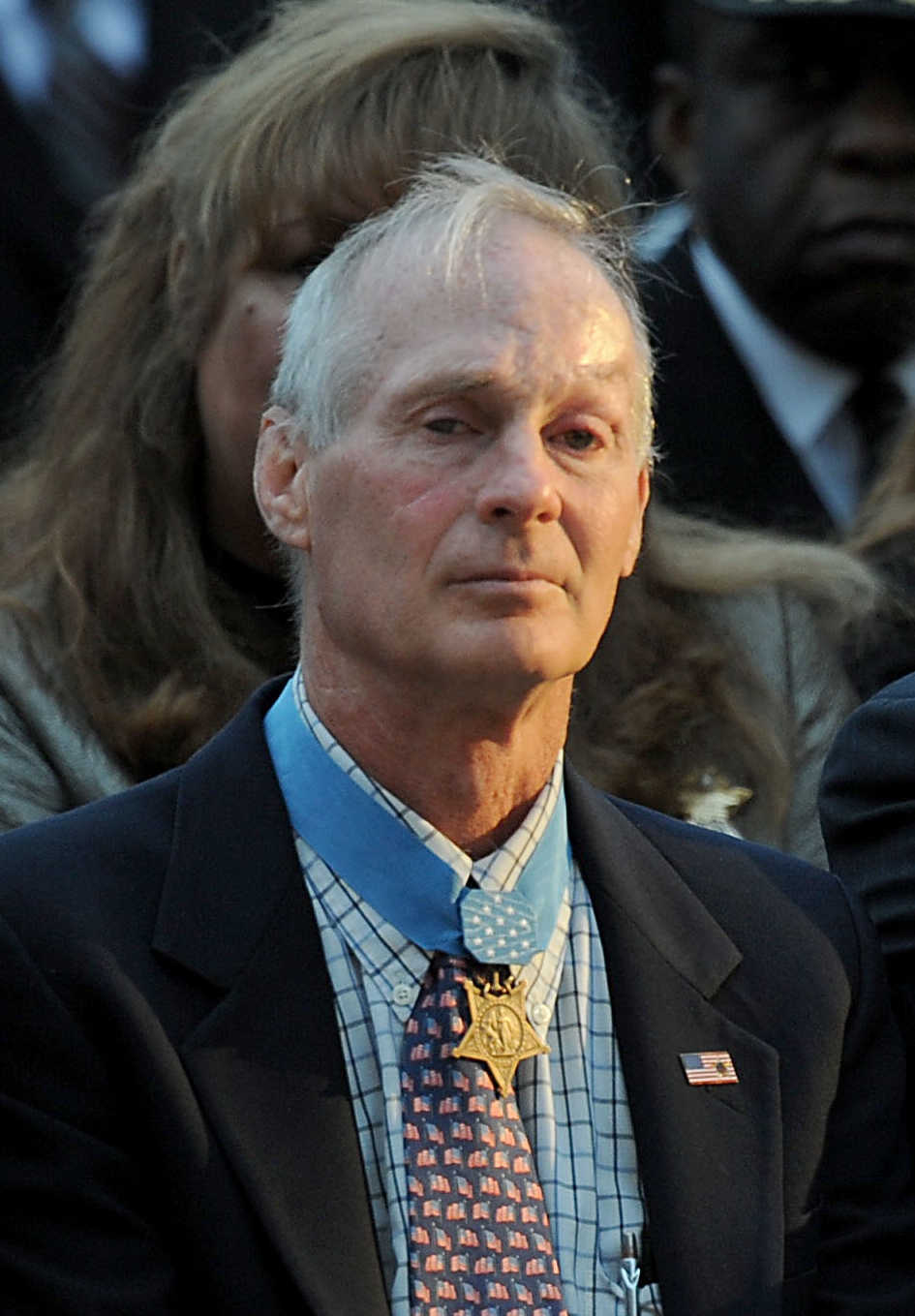 Medal of Honor recipient Thomas Norris, USN, at the Medal of Honor flag presentation ceremony for Master-at-Arms 2nd Class (Seal) Michael A. Monsoor at the Navy Memorial in Washington, D.C.